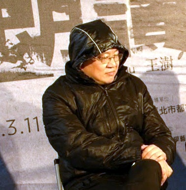 Architect Wang-Shu at the Illegal Architecture exhibition by the Ruin Academy in Taipei. Photo Marco Casagrande.